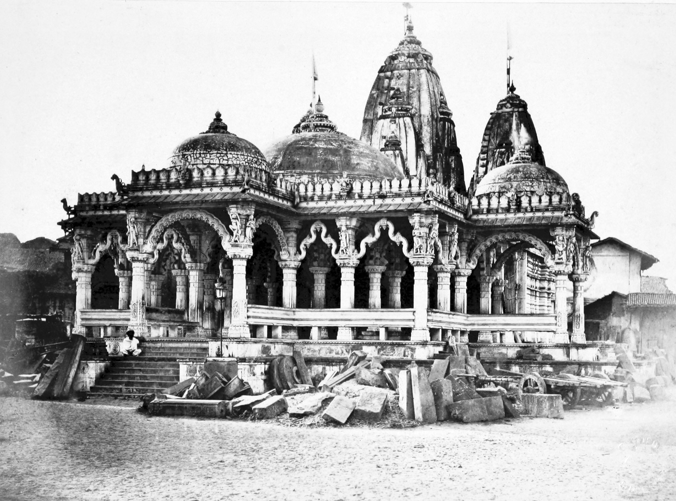 Image taken from: Title: "Architecture at Ahmedabad, the Capital of Goozerat, photographed by Colonel Biggs, ... With an historical and descriptive sketch, by T. C. H., ... and architectural notes by J. Fergusson, etc" Author: HOPE, Theodore Cracraft - Sir, K.C.S.I Contributor: BIGGS, Thomas. Contributor: FERGUSSON, James - Architect Shelfmark: "British Library HMNTS 10057.f.17.", "British Library OC V 6665" Page: 359 Place of Publishing: London Date of Publishing: 1866 Issuance: monographic Identifier: 001730119 Note: The colours, contrast and appearance of these illustrations are unlikely to be true to life. They are derived from scanned images that have been enhanced for machine interpretation and have been altered from their originals. If you wish to purchase a high quality copy of the page that this image is drawn from, please order it here. Please note that you will need to enter details from the above list - such as the shelfmark, the page, the book's volume and so on - when filling out your order. Following this or the link above will take you to the British Library's integrated catalogue. You will be able to download a PDF of the book this image is taken from, as well as view the pages up close with the 'itemViewer'. Click on the 'related items' to search for the electronic version of this work. Click here to see all the illustrations in this book and click here to browse other illustrations published in books in the same year. Please click on the tags shown on the right-hand side for other ways to browse the illustrations.